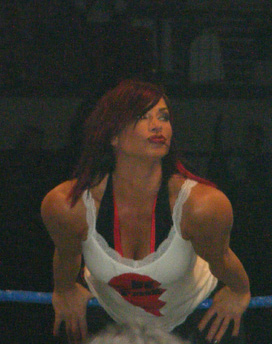 Victoria @ Adelaide, South Australia 'Smackdown/ECW' house show on the 14th of June '08